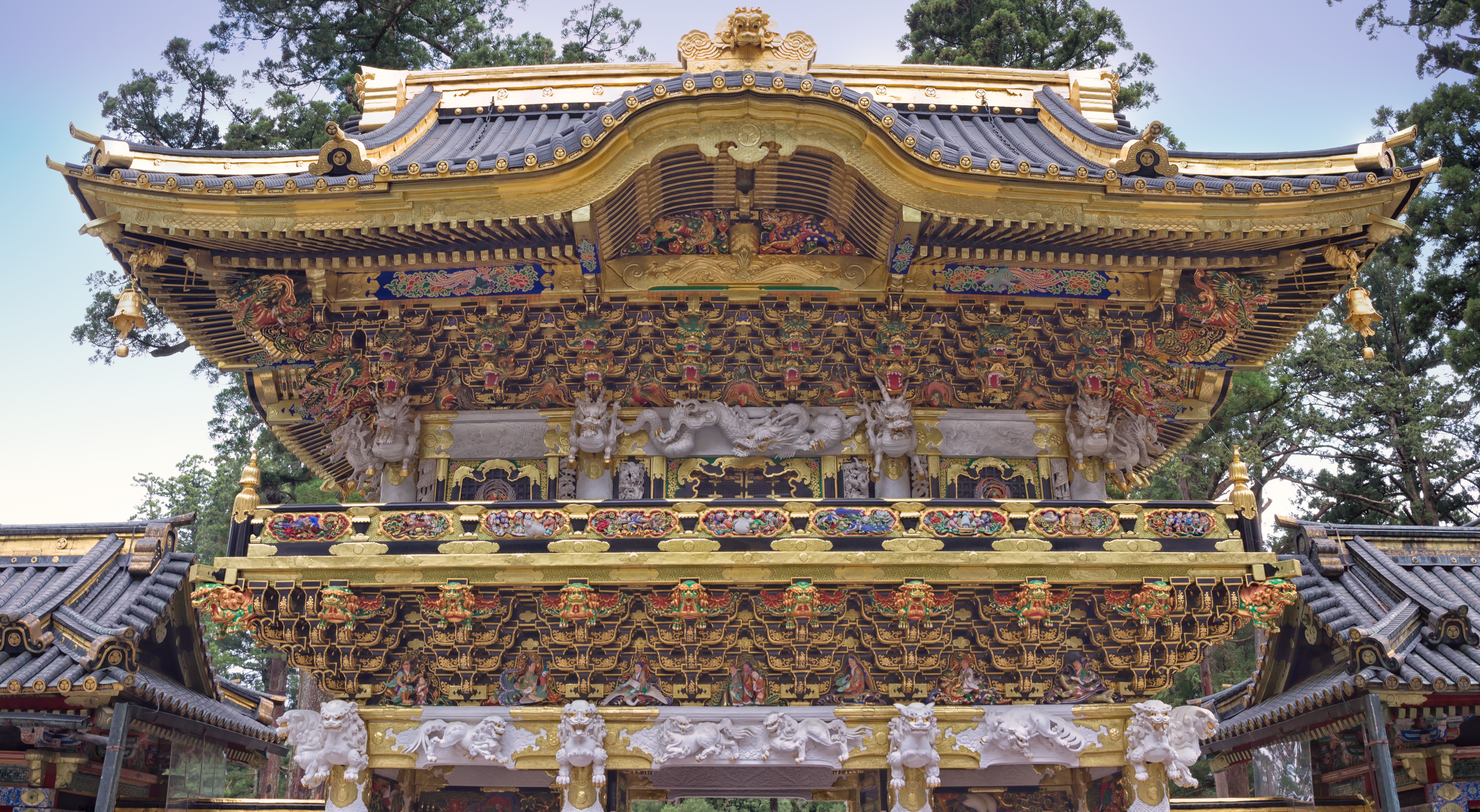 Tōshō-gū is dedicated to Tokugawa Ieyasu, the founder of the Tokugawa shogunate. It was initially built in 1617, during the Edo period, while Ieyasu's son Hidetada was shōgun. It was enlarged during the time of the third shogun, Iemitsu.